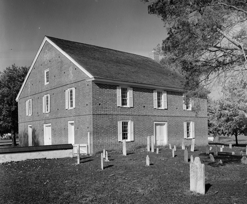 Old Barratt's Chapel (Methodist), Route 113, Frederica vicinity (Kent County, Delaware) Object location39° 01′ 29″ N, 75° 27′ 34″ W